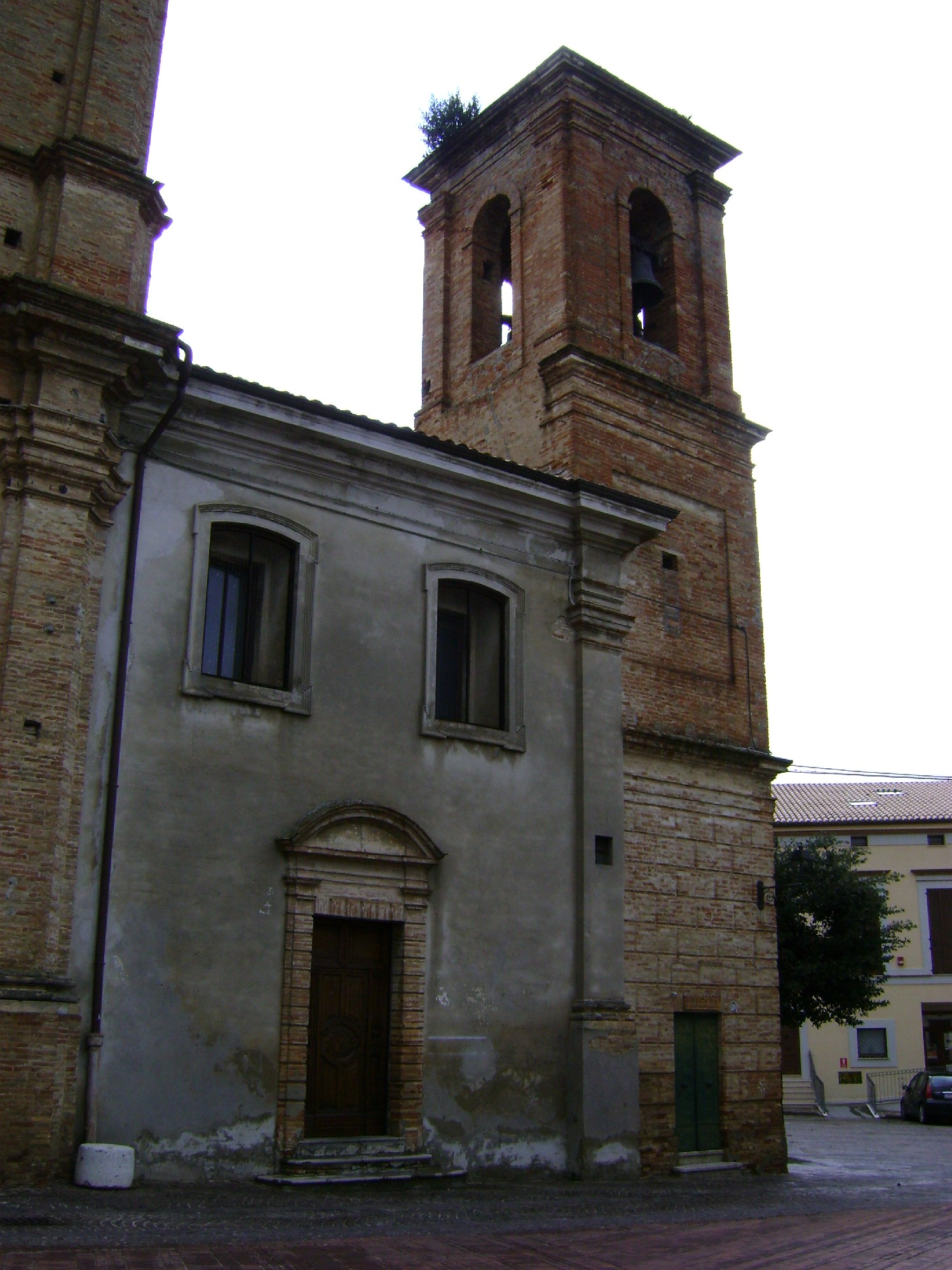 The church of Saint Rosary, Castel Frentano, province of Chieti.